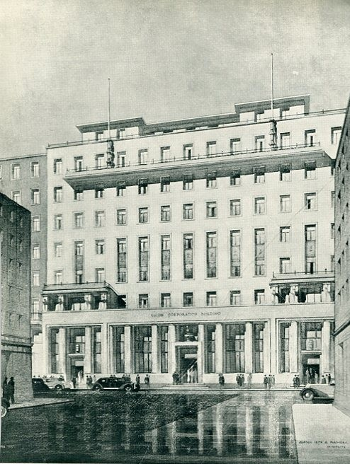 The Union corporation building is a building of historical and heritage significance found in the city of Johannesburg.